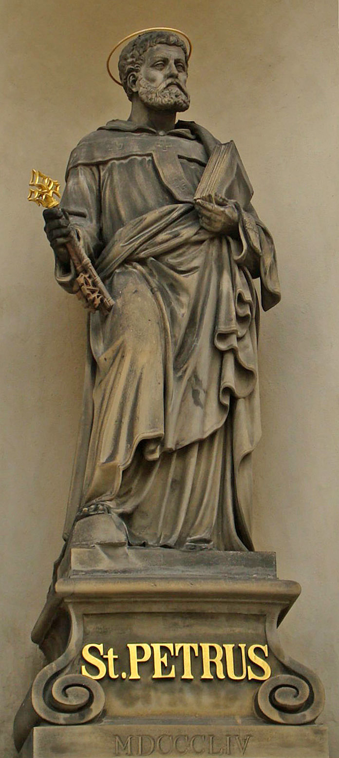 St. Peter statue on the Holy Cross Chapel, Prague Castle, Czechia